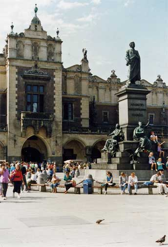 Kraków, Poland by Gouwenaar from the Dutch Wikipedia.